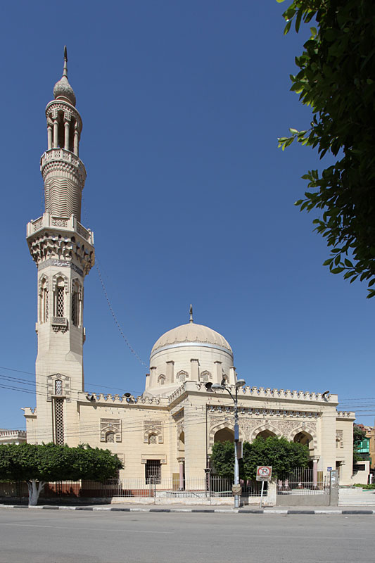 Omar ibn 'Abd el-'Aziz mosque, Beni Suef, Egypt